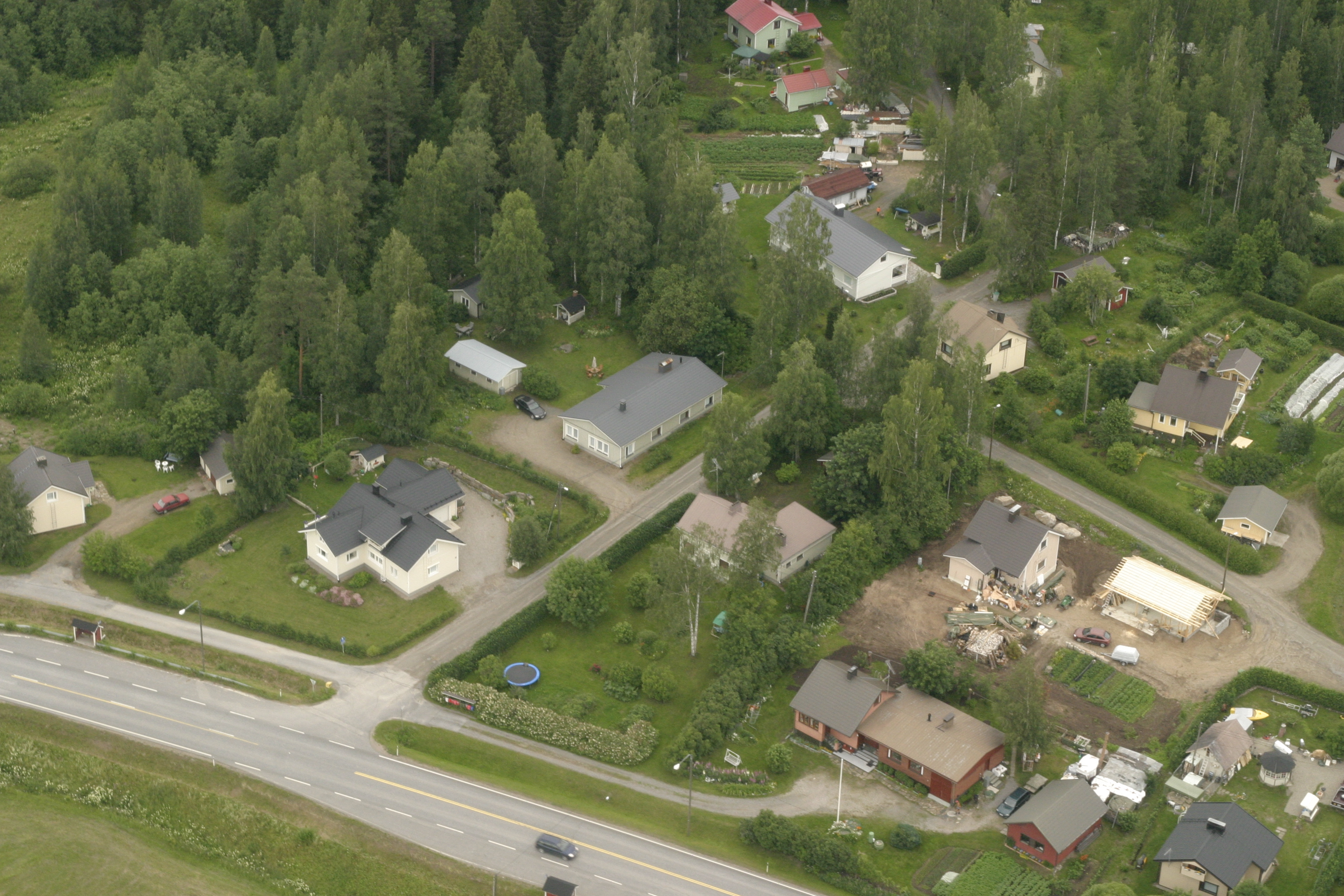 Aerial view of Rantakylä in Kiuruvesi, Finland. The road in the bottom is the Finnish national road 27.